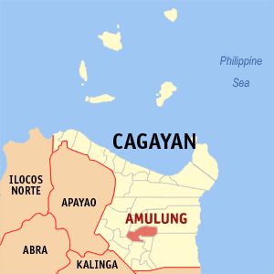 Map of Cagayan showing the location of Amulung